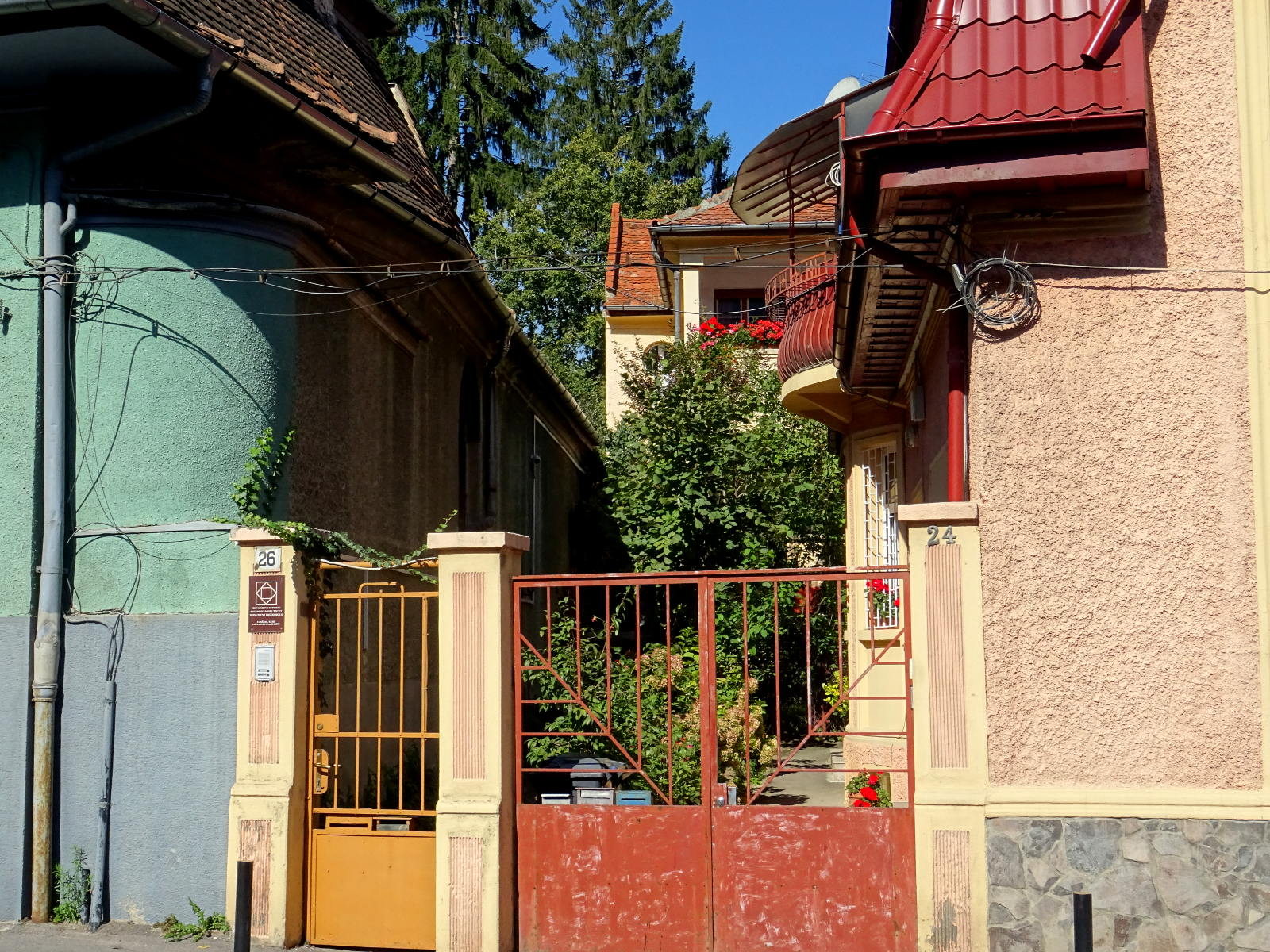 House on Brâncoveanu street (Brasov, Romania), number 26